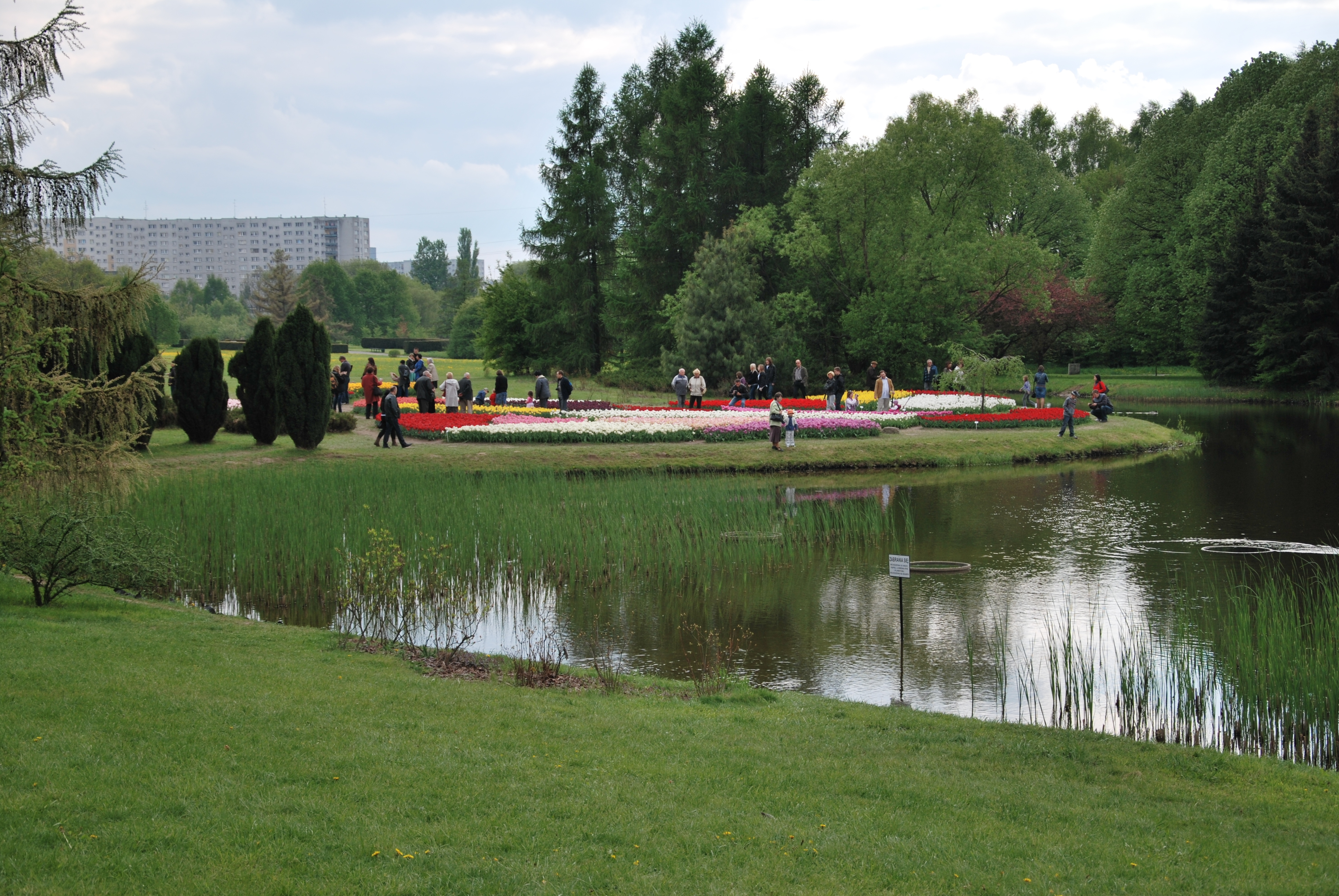 Botanical Garden in Łódź